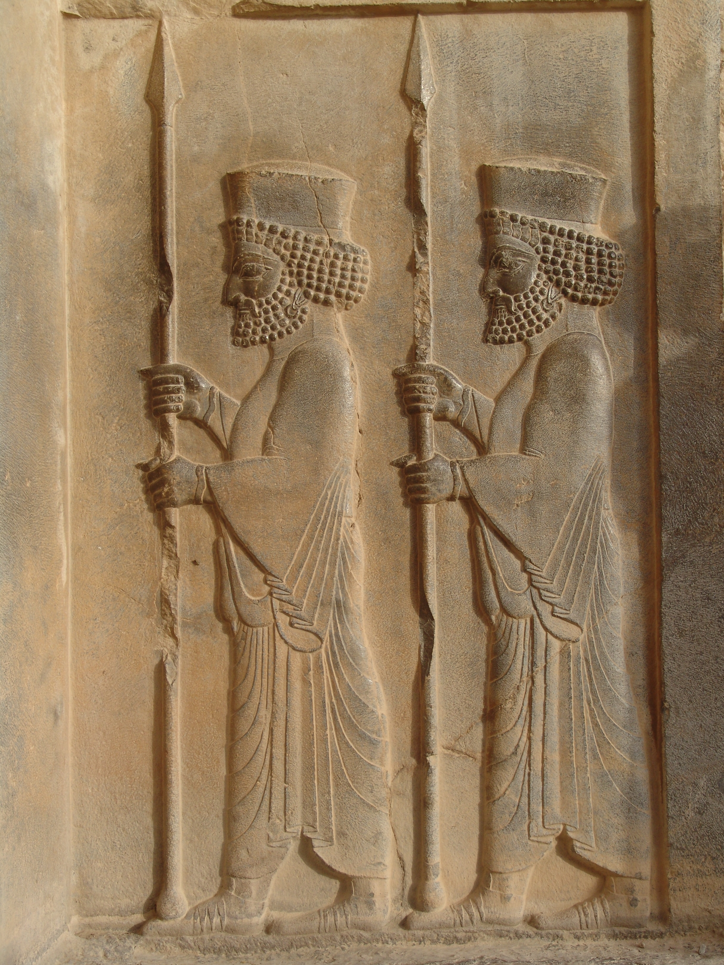 Persepolis